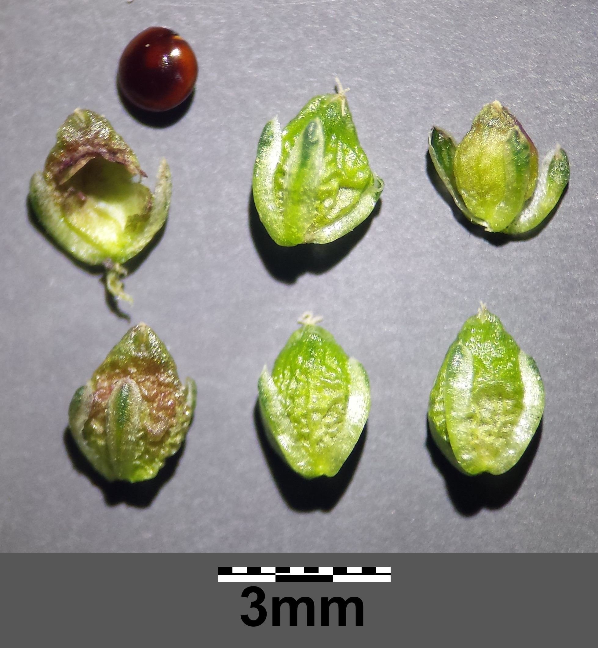 Fruits with seed Taxonym: Amaranthus blitum subsp. blitum ss Fischer et al. EfÖLS 2008 ISBN 978-3-85474-187-9 Location: Haidschüttgasse, Vienna-Floridsdorf - ca. 160 m a.s.l. Habitat: ruderal area